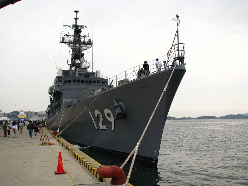 JS Yamayuki (DD-129) opened to the public during the Tamano Port Festival in the port of Uno.